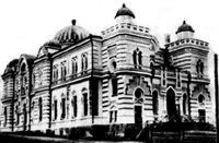 Chita, synagogue. 1911